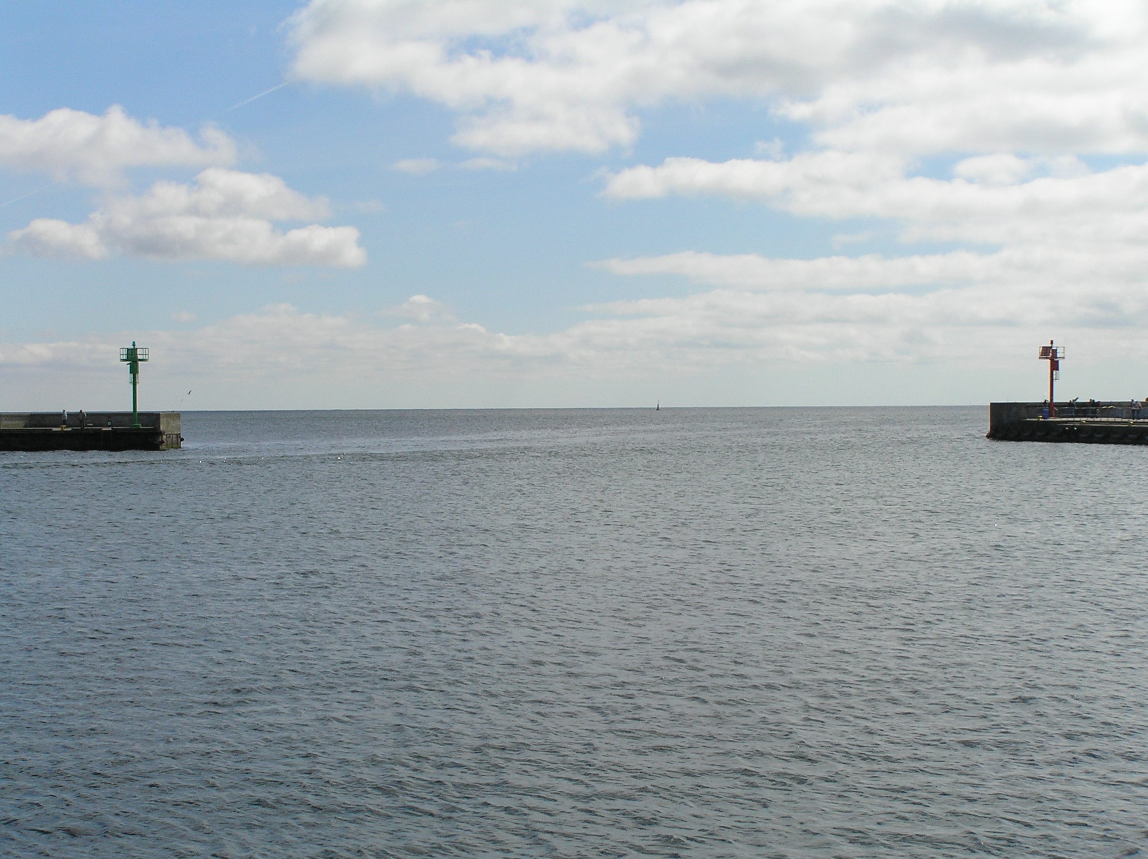 The Port of Hel gate